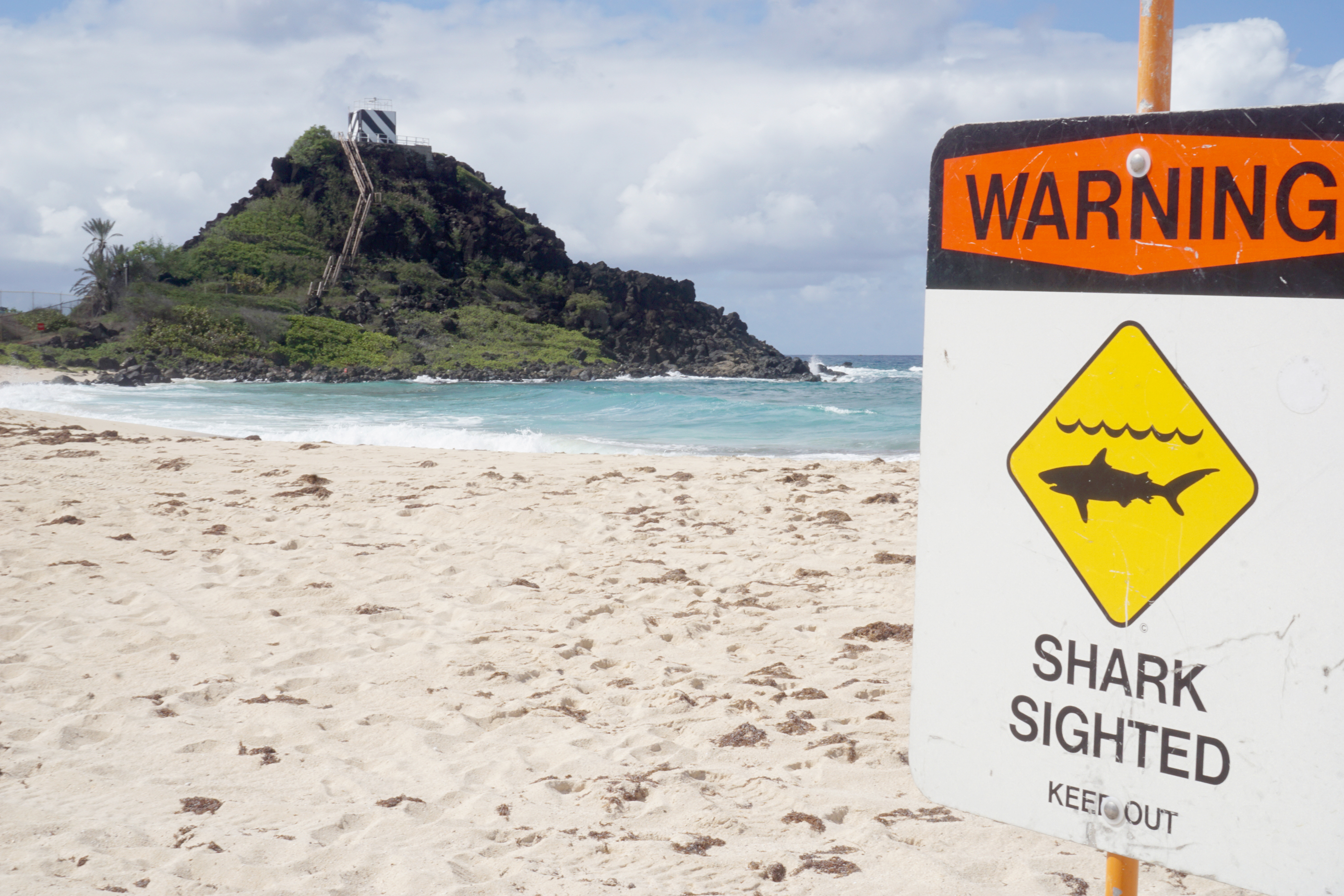 Lifeguards at Pyramid Rock Beach post a sign warning about a shark sighting, June 17, 2015. All beach goers must stay out of the water for a 45-minute period after signs are posted. Signs remain up at the beach after the 45-minute period to warn future visitors of the earlier sighting. (U.S. Marine Corps photo by Christine Cabalo)